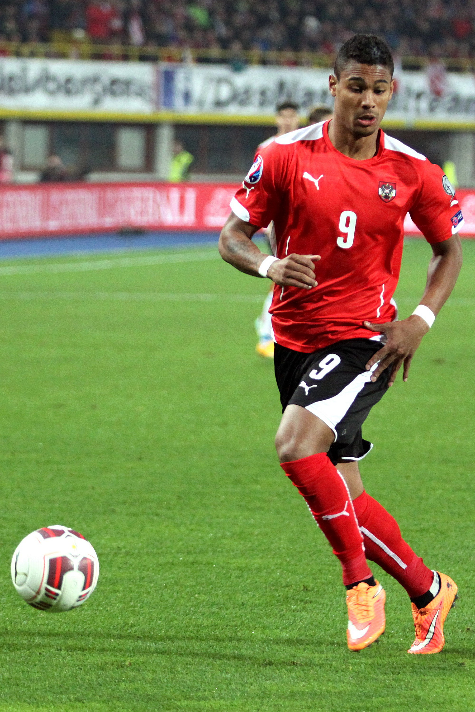 en:UEFA Euro 2016 qualifying |UEFA Euro 2016 qualifying : Austria vs. Russia (1:0 / 0:0) at 2014-11-15 in the Ernst-Happel-Stadion in Vienna. – The photo shows en: (Austria / Rusiia).